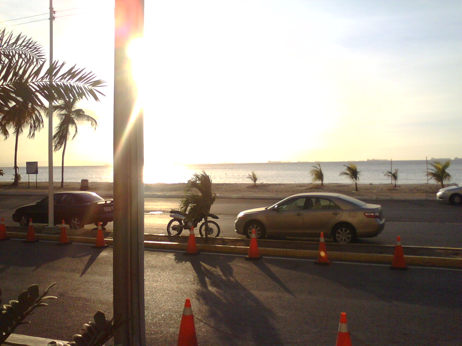 Picture taken on 30-01-2013 with my phone.